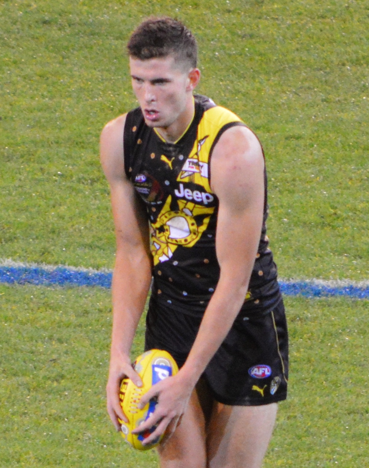 Callum Coleman-Jones with Richmond in the round 10 Dreamtime at the 'G AFL match against Essendon at the MCG on 25 May 2019.